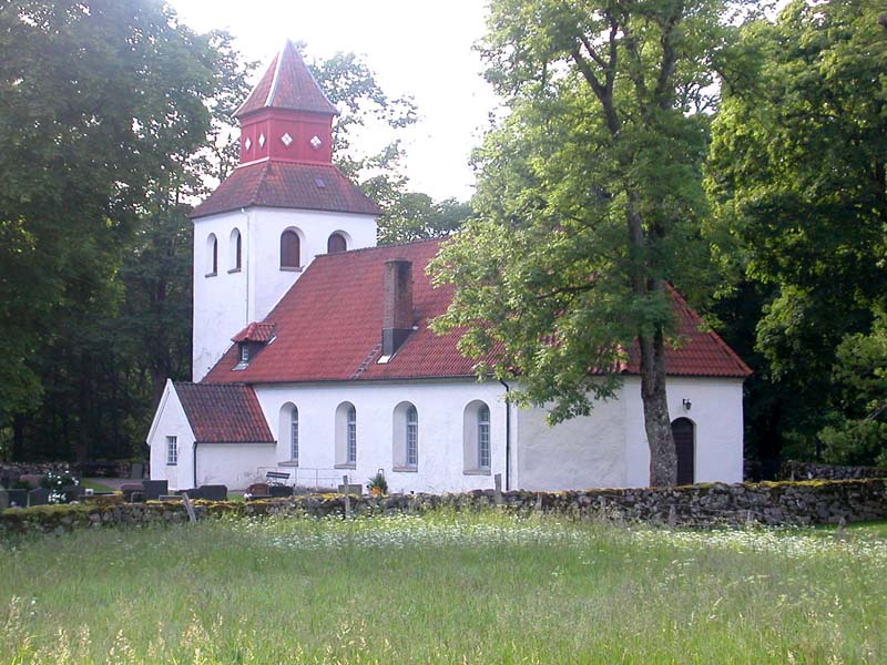 Dagsås Church, Varberg Municipality, Sweden.